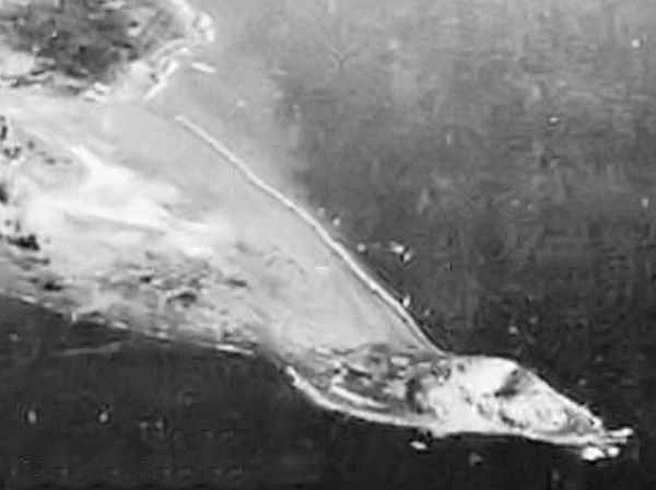 Central Field Iwo Jima Feb 1845